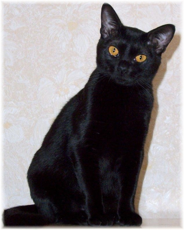 photo de chatte Bombay